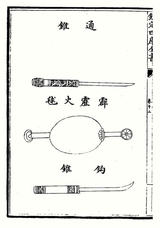 Illustration for fire cracker ball in Wujing Zongyao